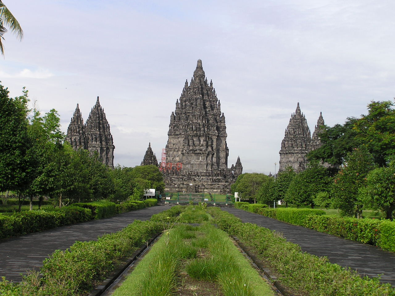 Prambanan temple complex from the front gate.